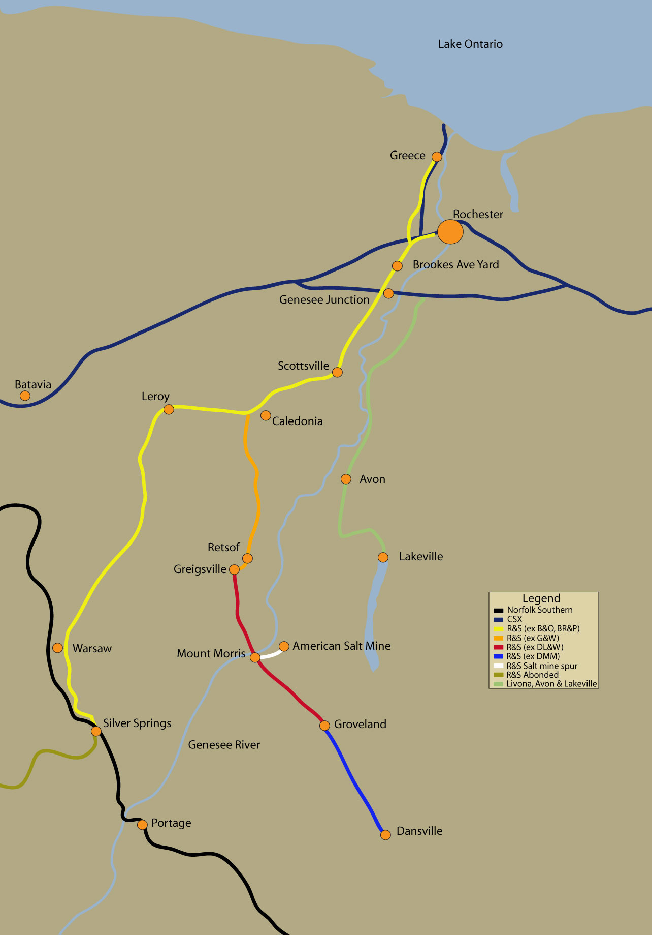 System map of the Rochester and Southern Railroad. Broken into the separate components that make up the 2007 RSR system.